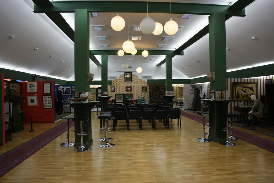 Museum of Pivara Čelarevo Srpski (latinica): Muzej Pivare Čelarevo